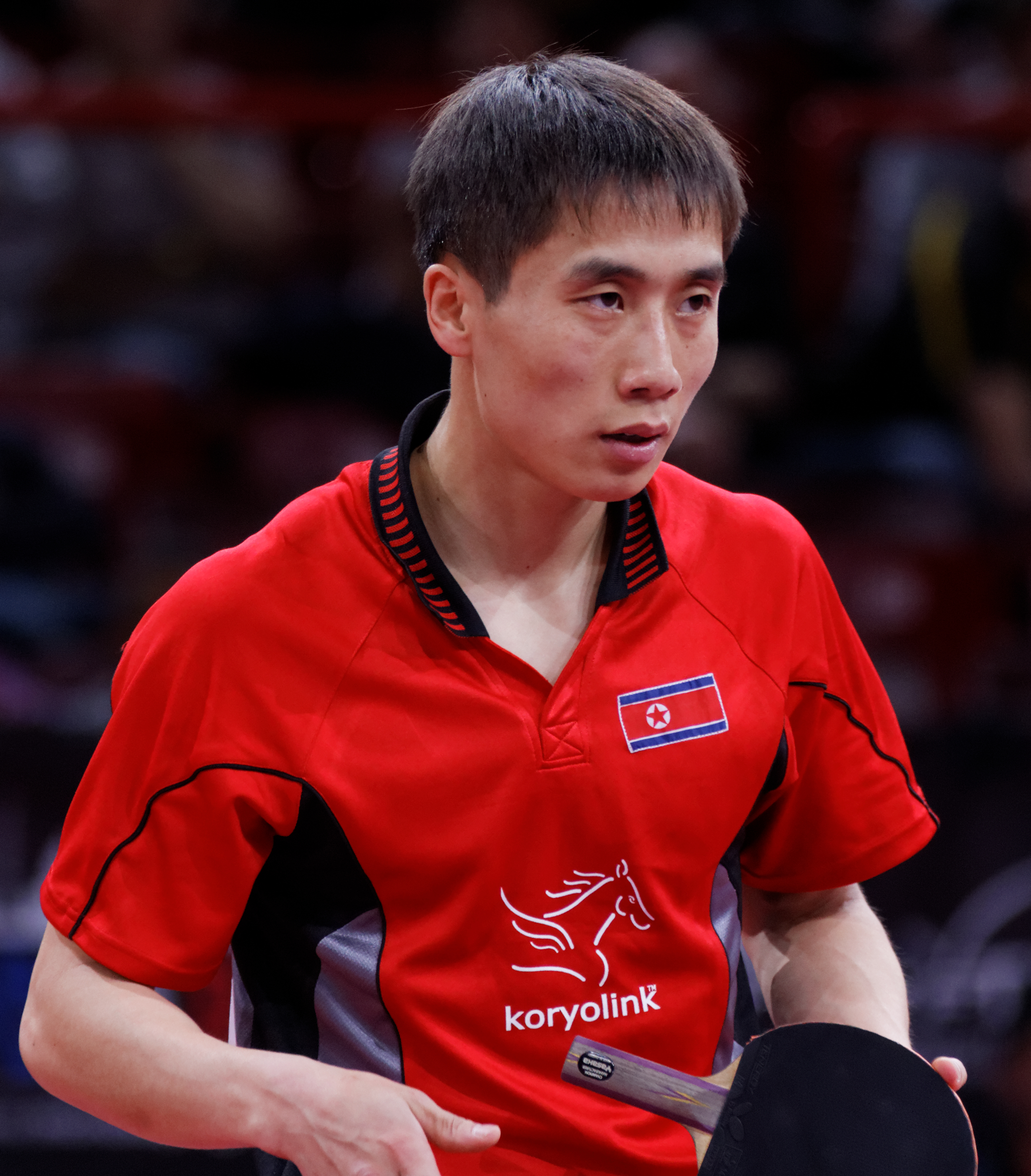 2013 World Table Tennis Championships, Paris. Mixed Doubles Semifinal. Cheung Yuk and Jiang Huajun vs Kim Hyok-Bong and Kim Jong.